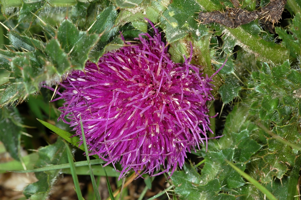 Cirsium acaule, Fiescheralp, Switzerland